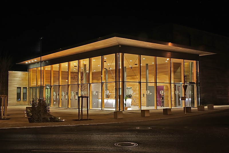 The regional culture centre "Cube 521" in Marnach, Luxembourg.